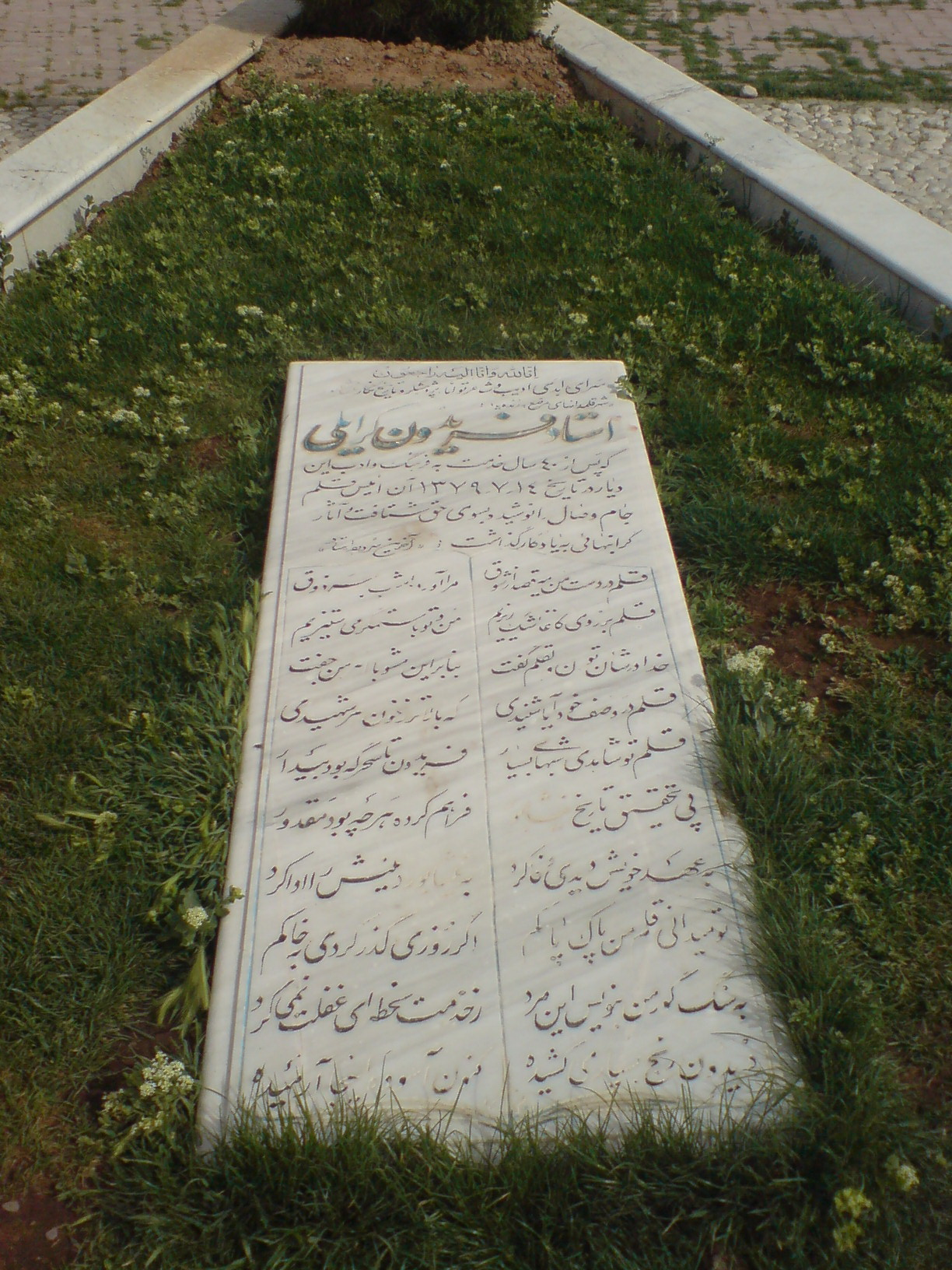 Tombstone of Fereydun Gerayelli -Nishapur